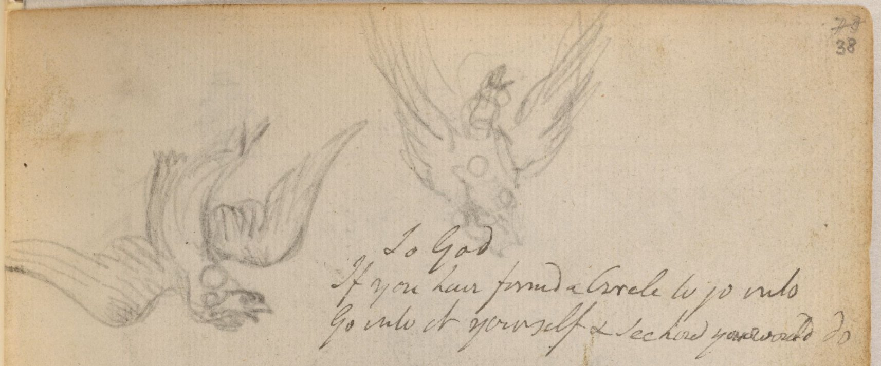 Blake manuscript - Notebook 1808 - 85 To God